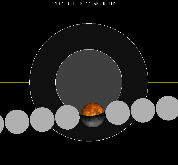 July 2001 lunar eclipse chart of moon's partial lunar eclipse path through the earth's shadow. thumb